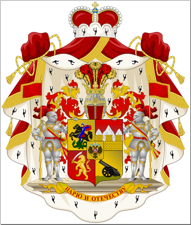 coat of arms of Tsulukidze family